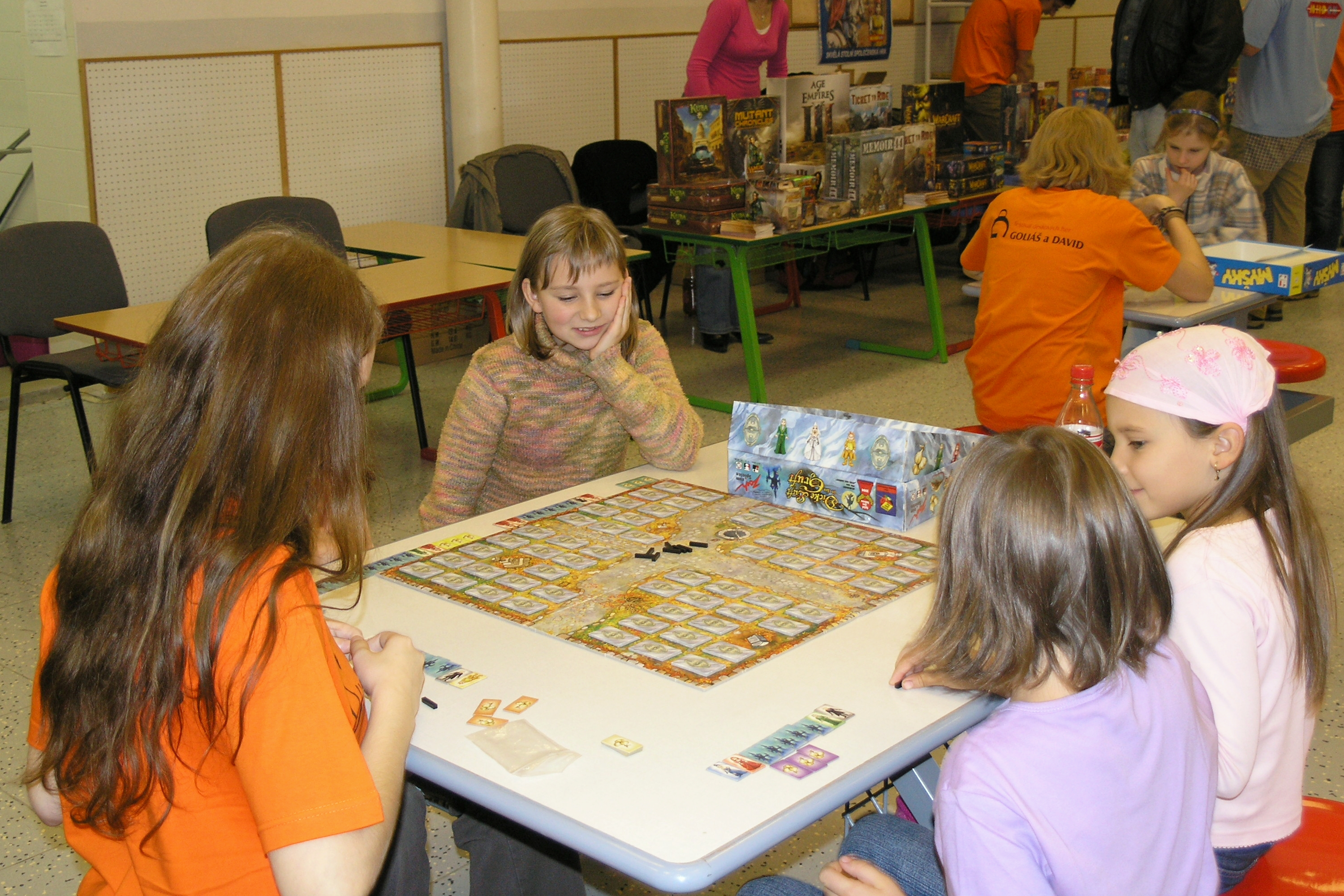 Personality rights warningAlthough this work is freely licensed or in the public domain, the person(s) shown may have rights that legally restrict certain re-uses unless those depicted consent to such uses. In these cases, a model release or other evidence of consent could protect you from infringement claims.